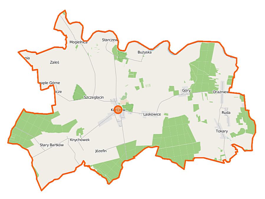 Map of Gmina Korczew, Poland This map of Korczew (gmina) was created from OpenStreetMap project data, collected by the community. This map may be incomplete, and may contain errors. Don't rely solely on it for navigation. Border coordinates52.416522.5024←↕→22.749352.3032